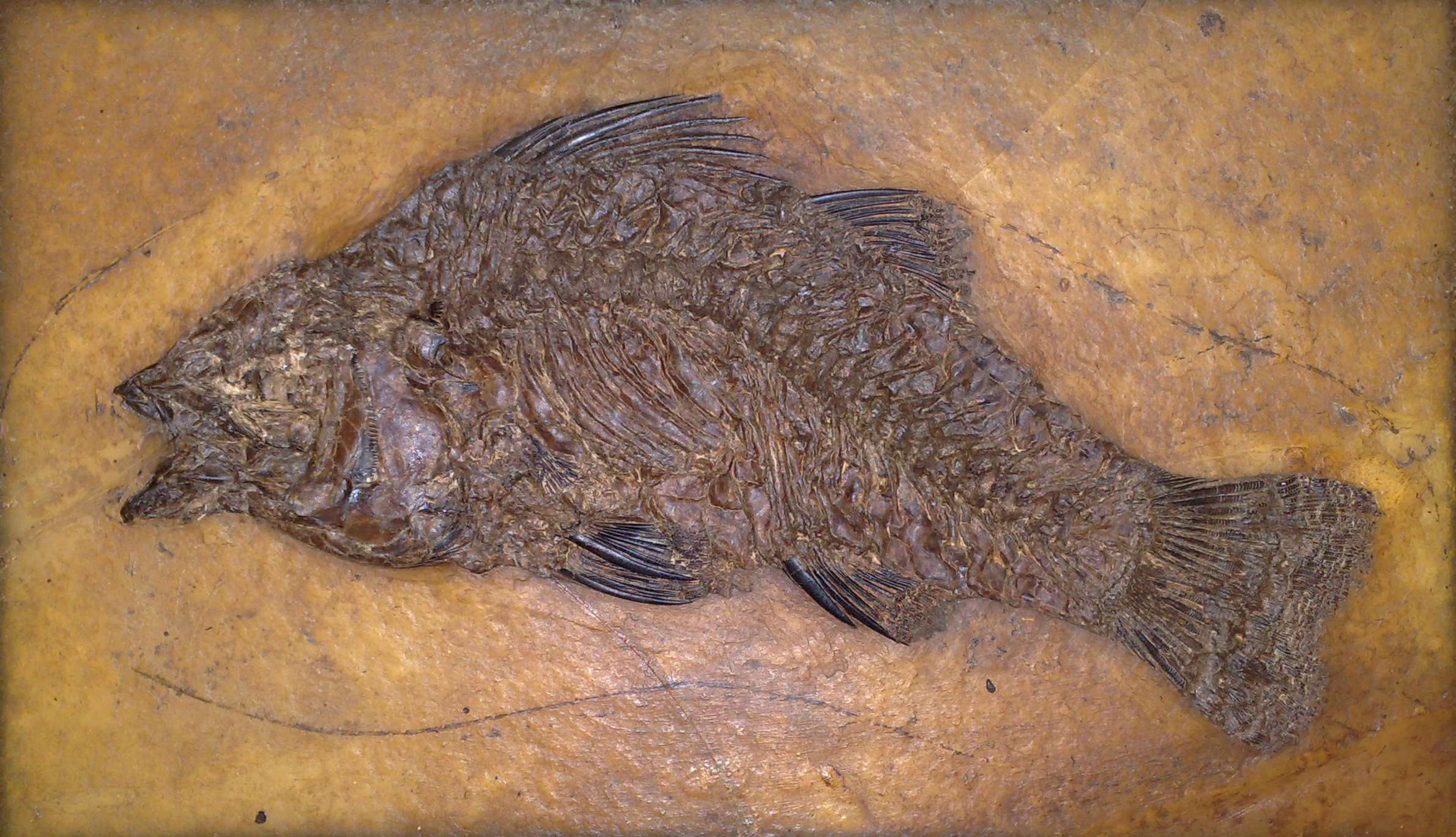 Fossil perch Paleoperca proxima from the Messel pit, Germany